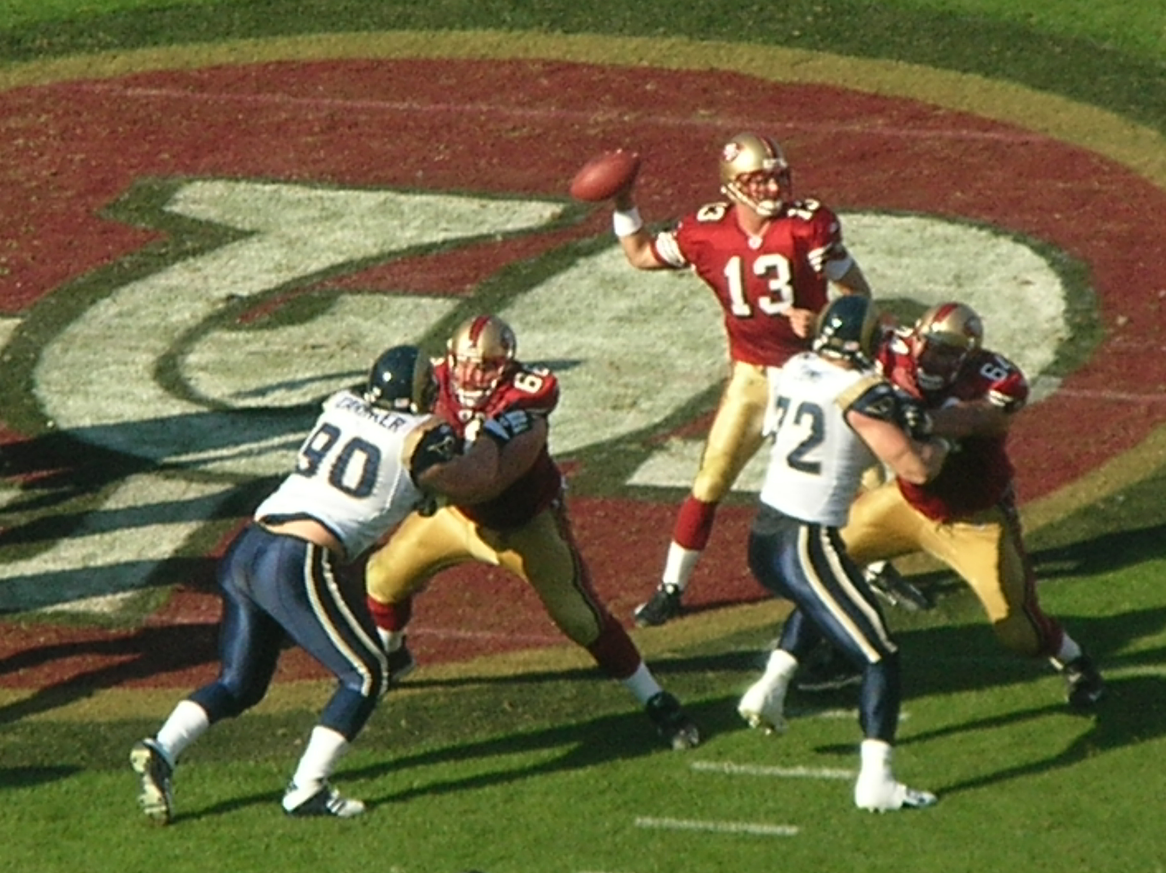 San Francisco 49ers quarterback Shaun Hill passes during a regular season game against the St. Louis Rams. The 49ers won 35-16.